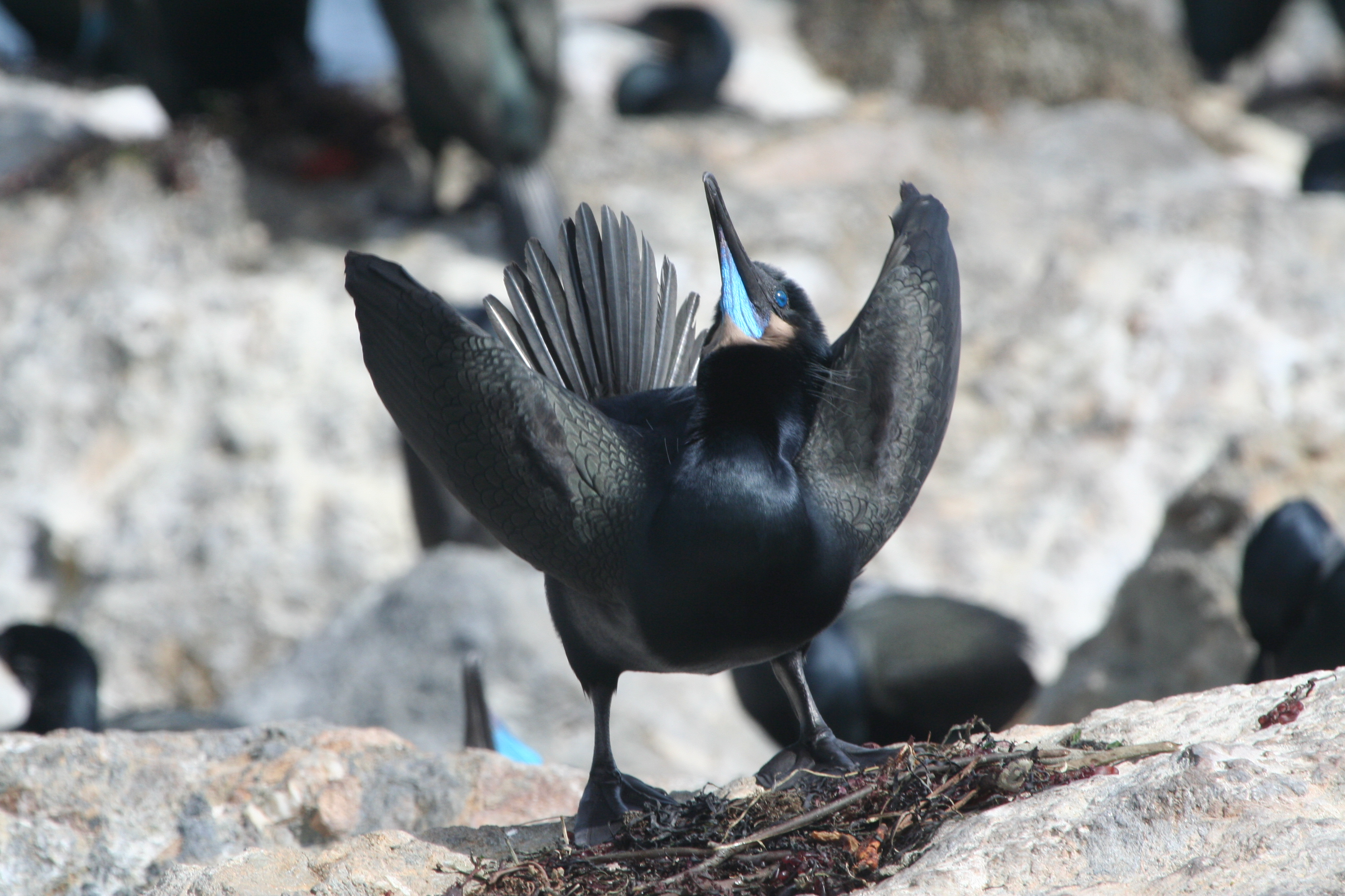 Photographed by and copyright of (c) David Corby (User:Miskatonic, uploader) 2006 A Brandt's Cormorant drying itself in Monterey, California. The cormorant's wings are not fully extended.